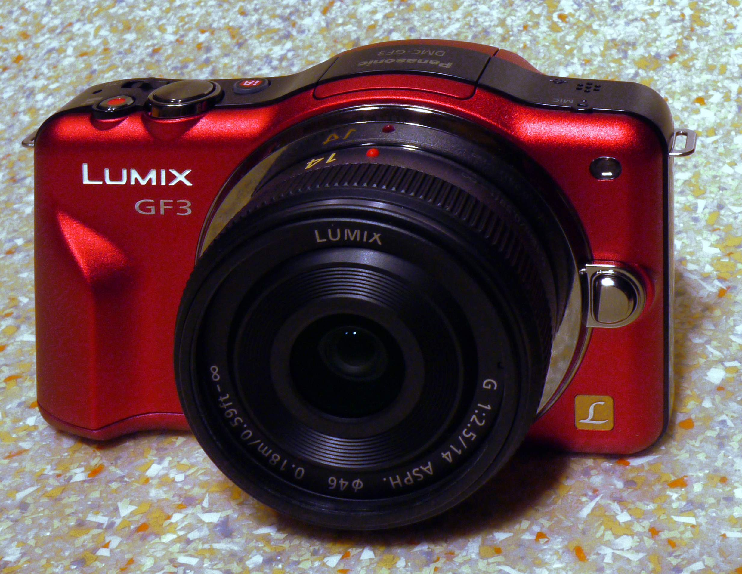 Panasonic Lumix DMC-GF3 digital camera